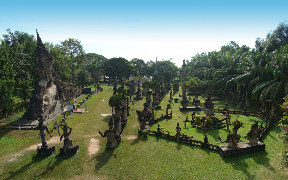 Xieng Khuan Buddha Park, Vientiane Prefecture, Laos.